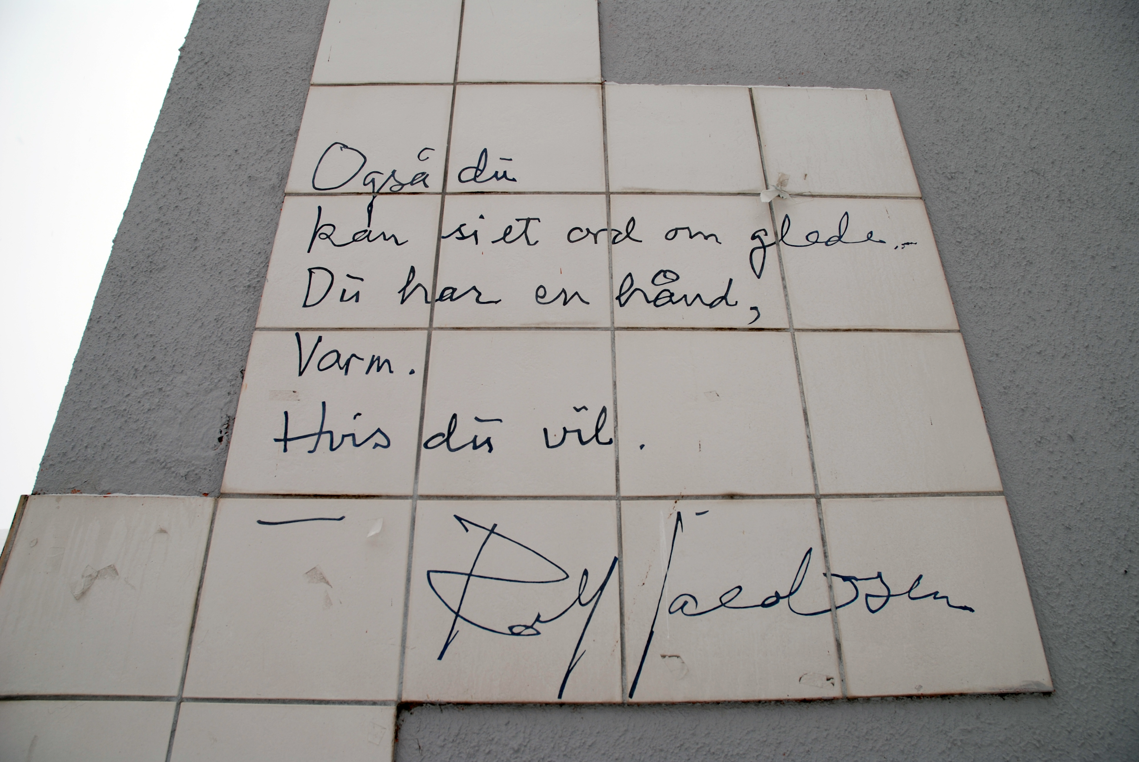 Poem written by Rolf Jacobsen located in the eastern square of Hamar, Hedmark, Norway.